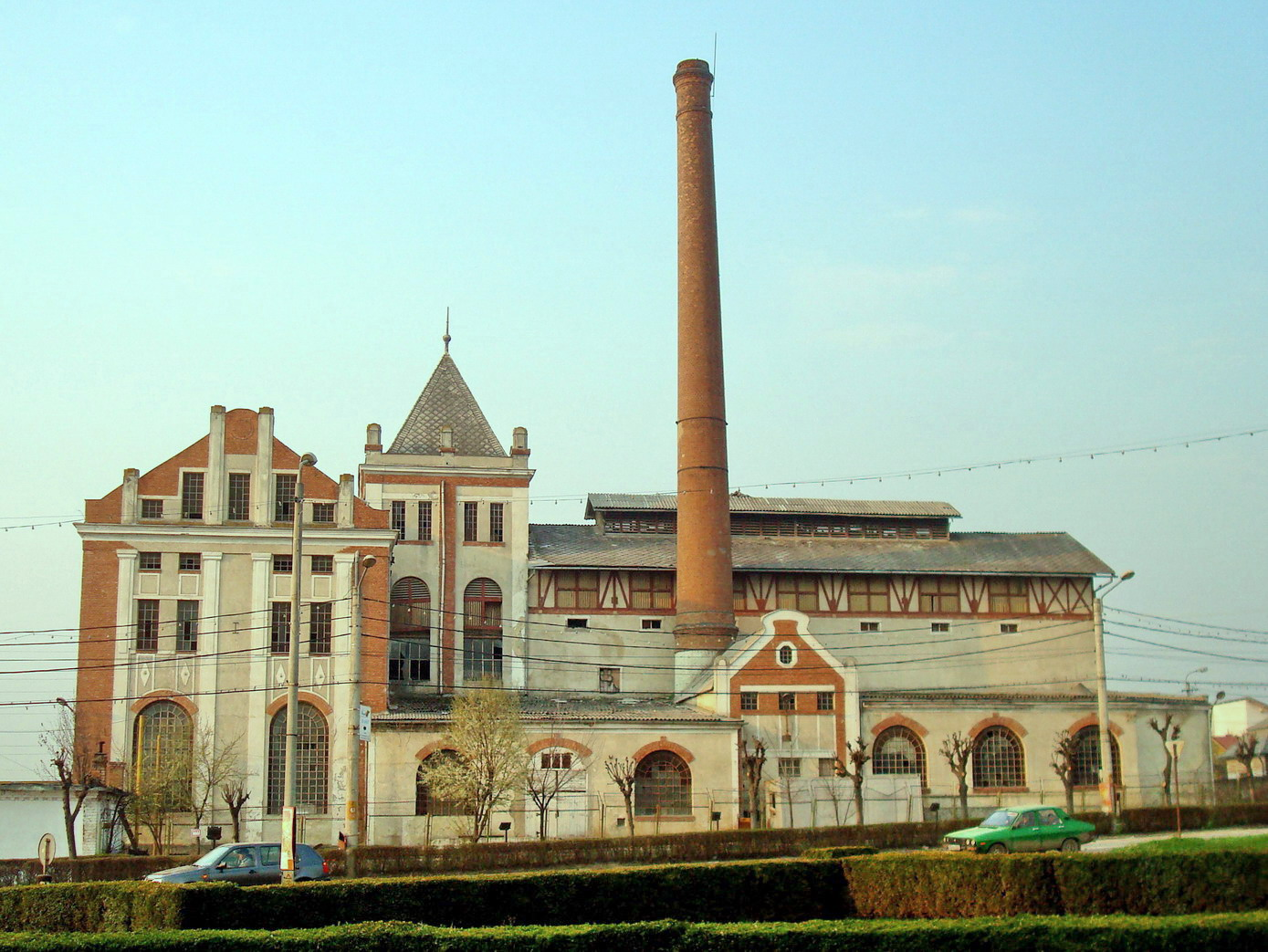 Former Brewery - (Romana Square)